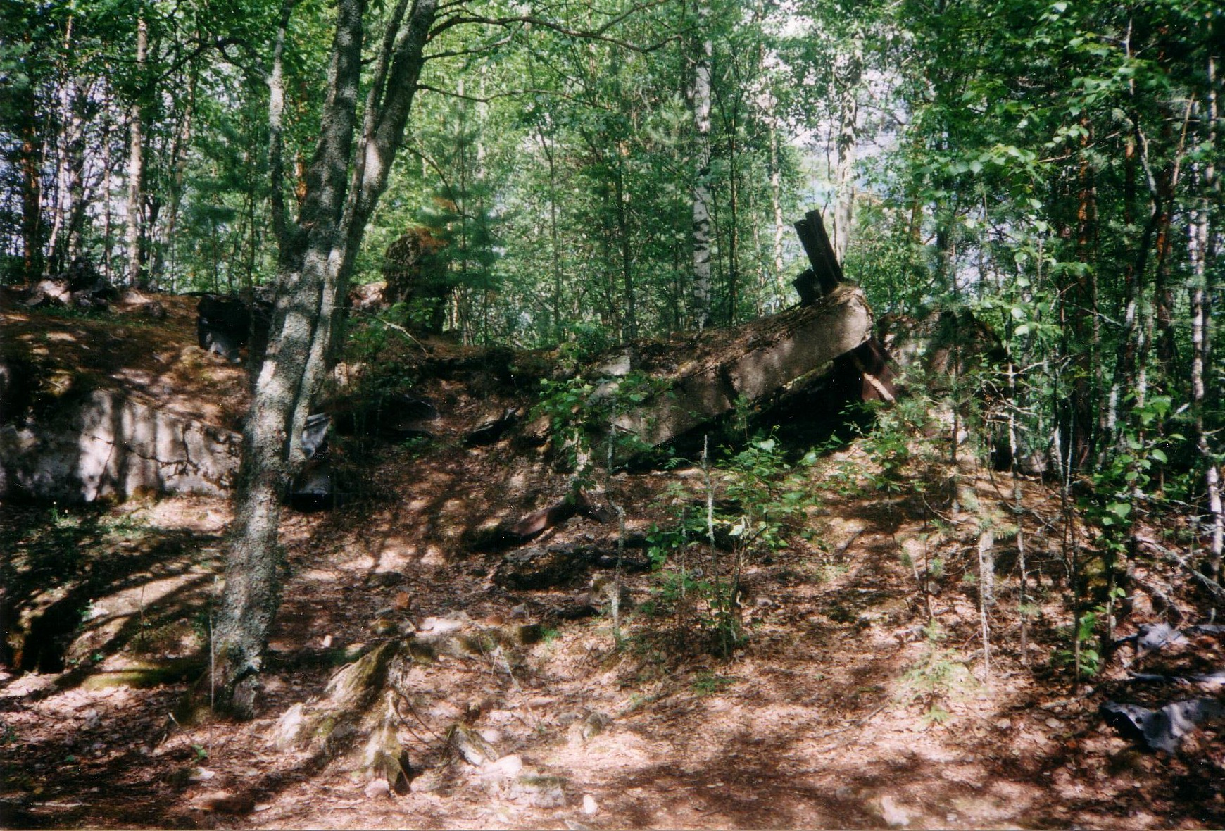 The ruins of the Äyräpää Lutheran Church in the Karelian Isthmus, Russia.